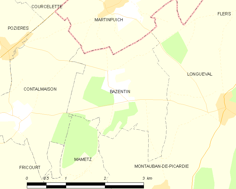 Map of French municipality Bazentin